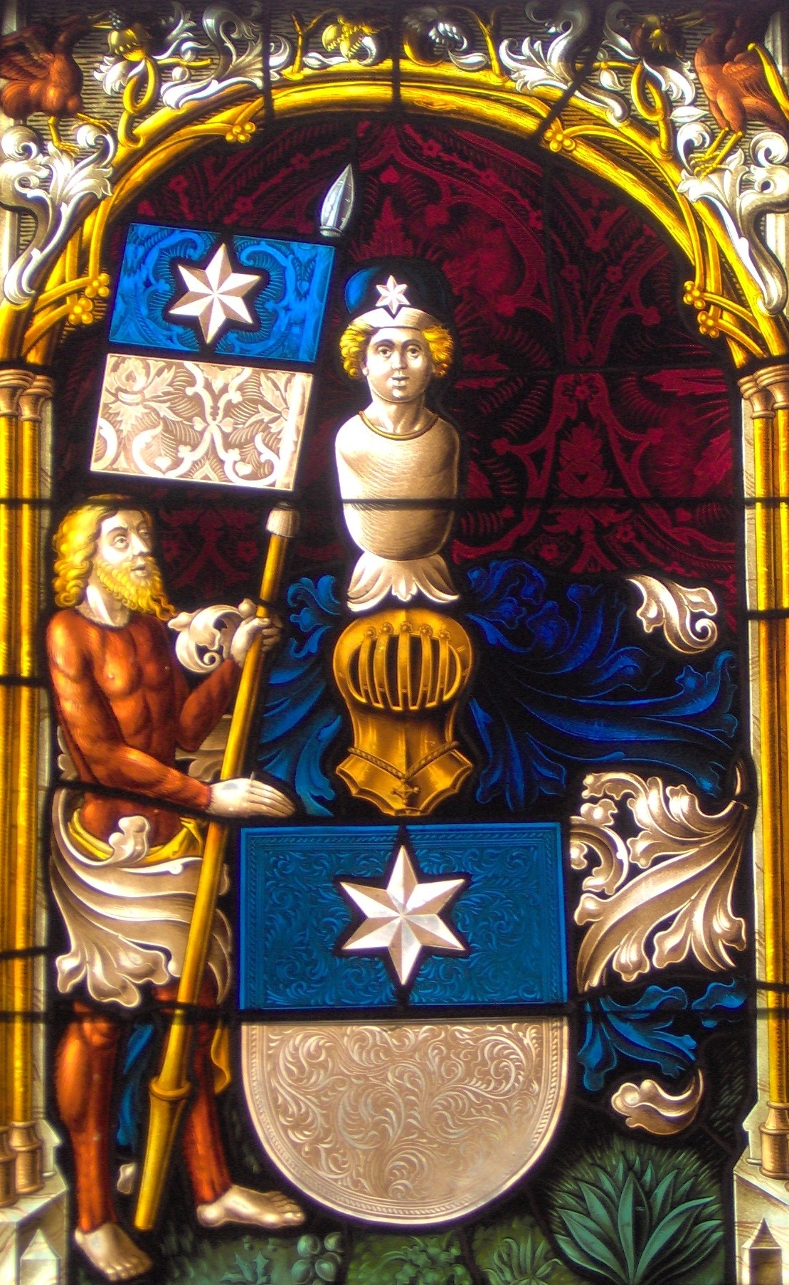 Title: Vitrail aux armes de la famille von Bubenberg Technique: Verre peint Dimensions: H 81 cm x L 61 cm Country of origin: Switzerland Current location (city): Bern Current location (gallery): Münster Other notes: Donation de Adrian II von Bubenberg